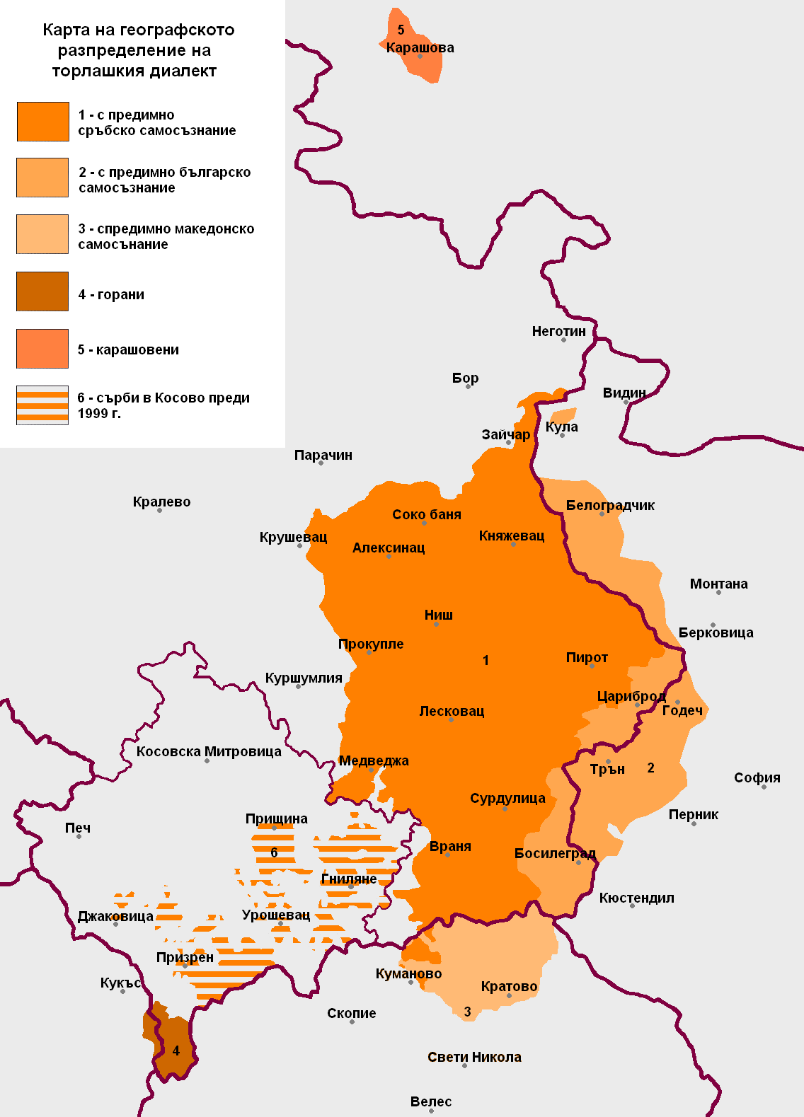 Torlak dialect on the Balkans acc. to Dialectological Atlas of Bulgarian Academy of Sciences, part 3 - 1974, part 4 - 1974. Reworked Пламен Цветков. )